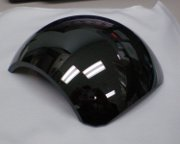 DLC coated dome for night vision system